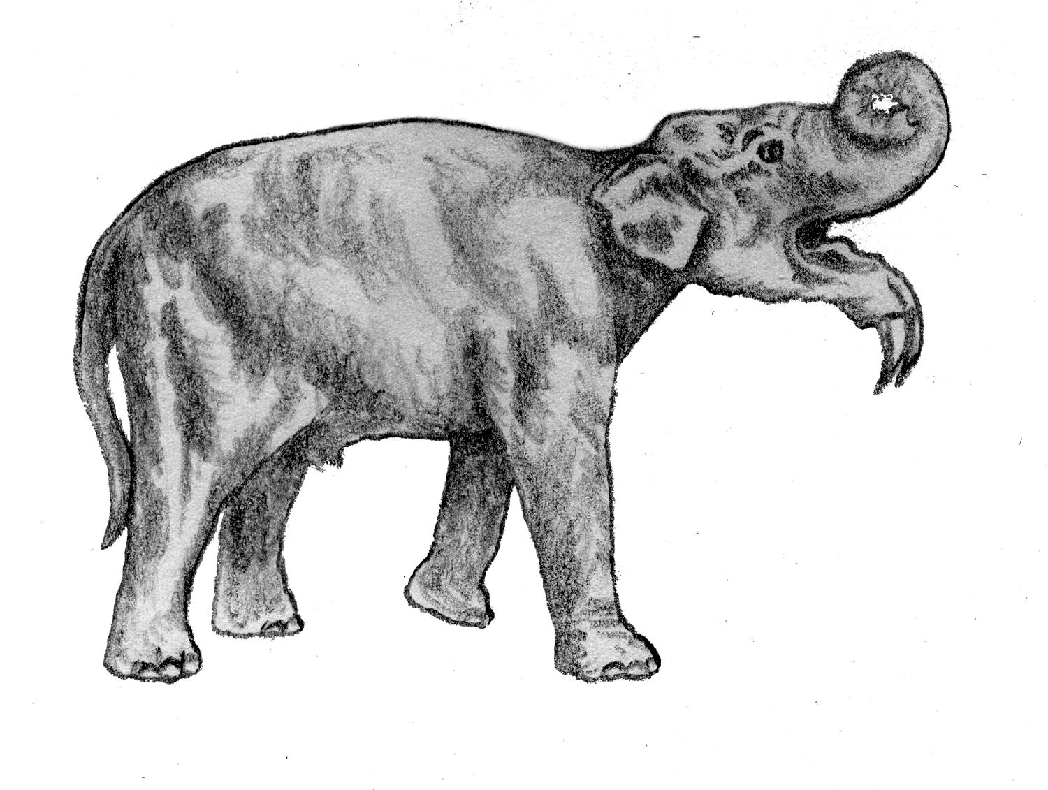 Deinotherium, an extinct proboscidean.